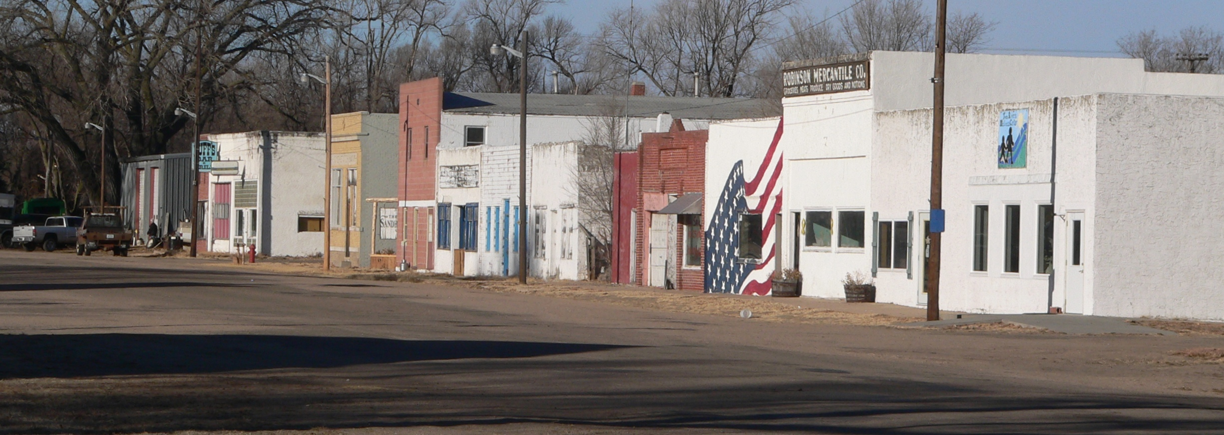 Downtown Dunning, Nebraska: north side of Jewett Avenue. Camera is facing northwest.